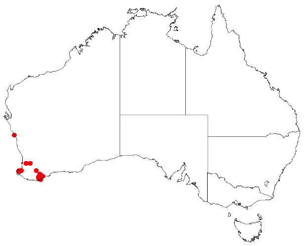 Hakea oldfieldii Occurrence data downloaded from AVH on 22 November 2018 using